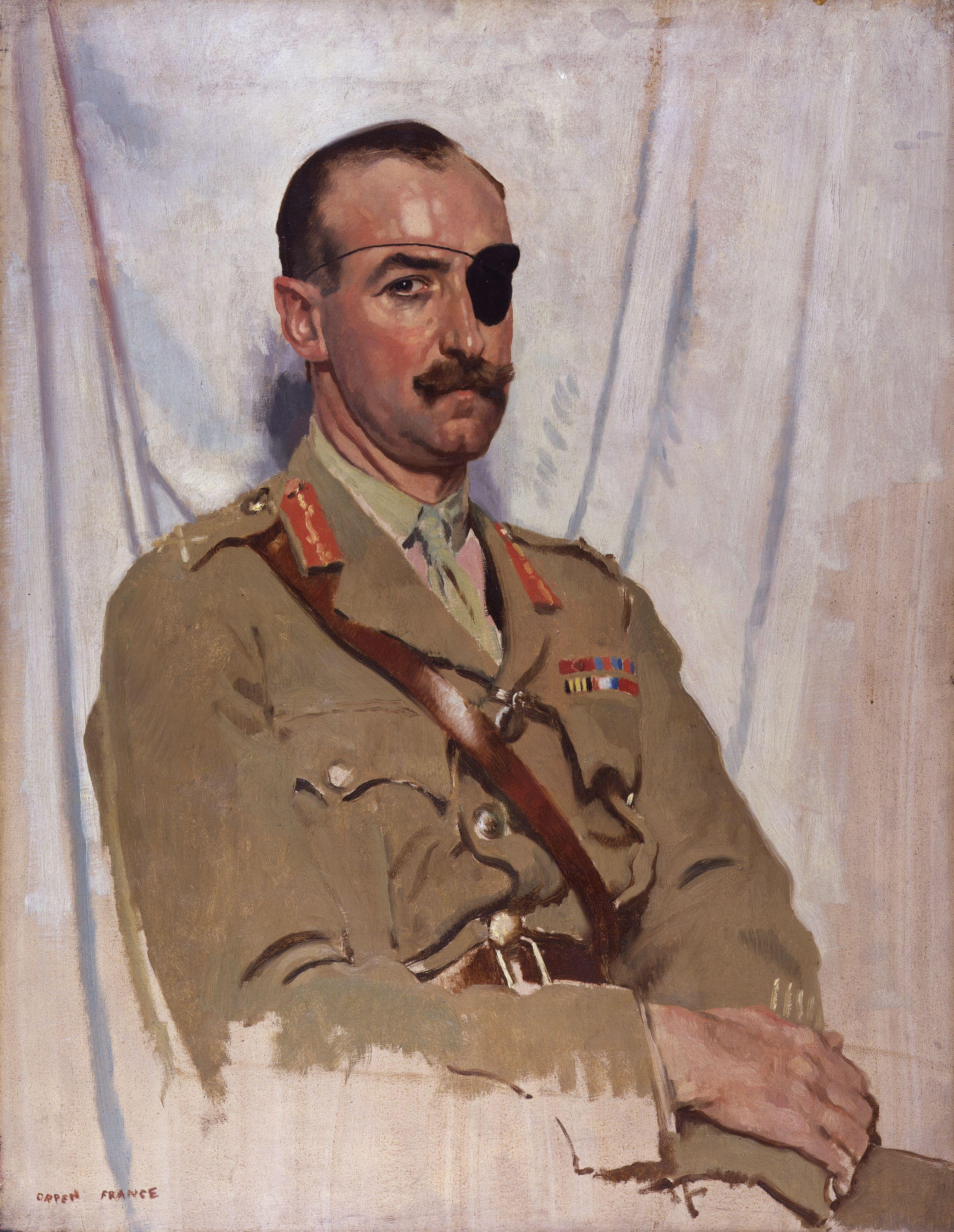 Lieutenant-General Sir Adrian Carton de Wiart VC, KBE, CB, CMG, DSO (5 May 1880 - 5 June 1963), was a British officer of Belgian and Irish descent, who fought in the 2nd Boerwar and both World Wars. He was shot in the face, head, stomach, ankle, leg, hip, and ear; survived a plane crash; tunnelled out of a POW camp; and bit off his own fingers when a doctor refused to amputate them.